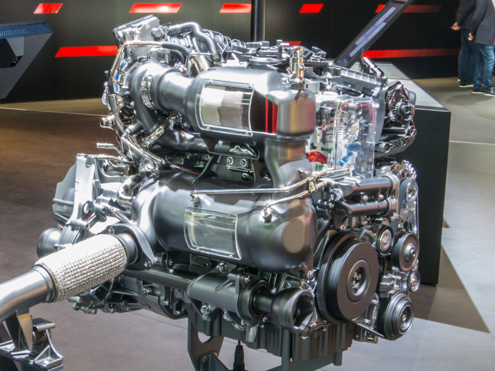 Mercedes-Benz OM 654